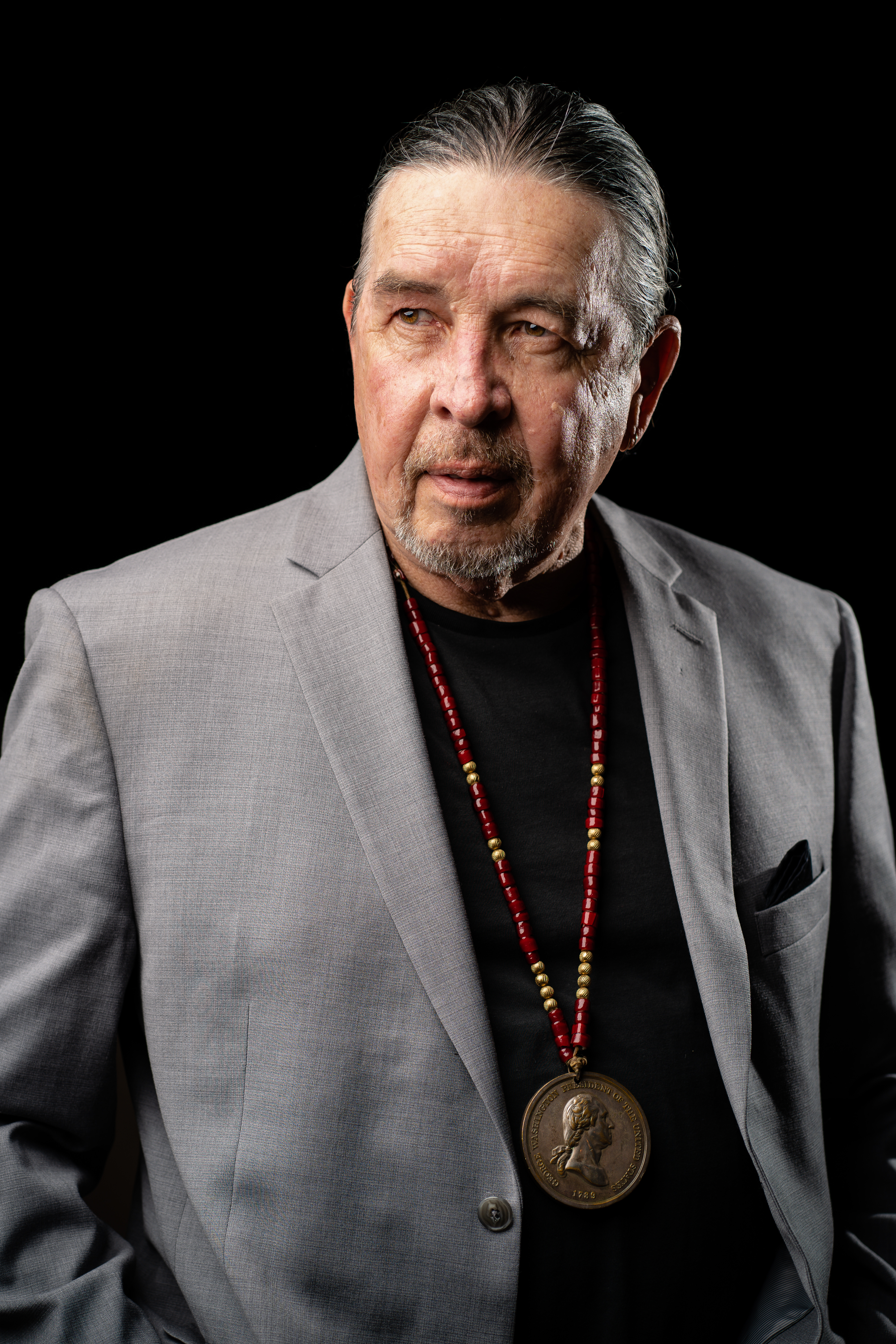 Harvey Pratt, Cheyenne & Arapaho artist from Oklahoma.